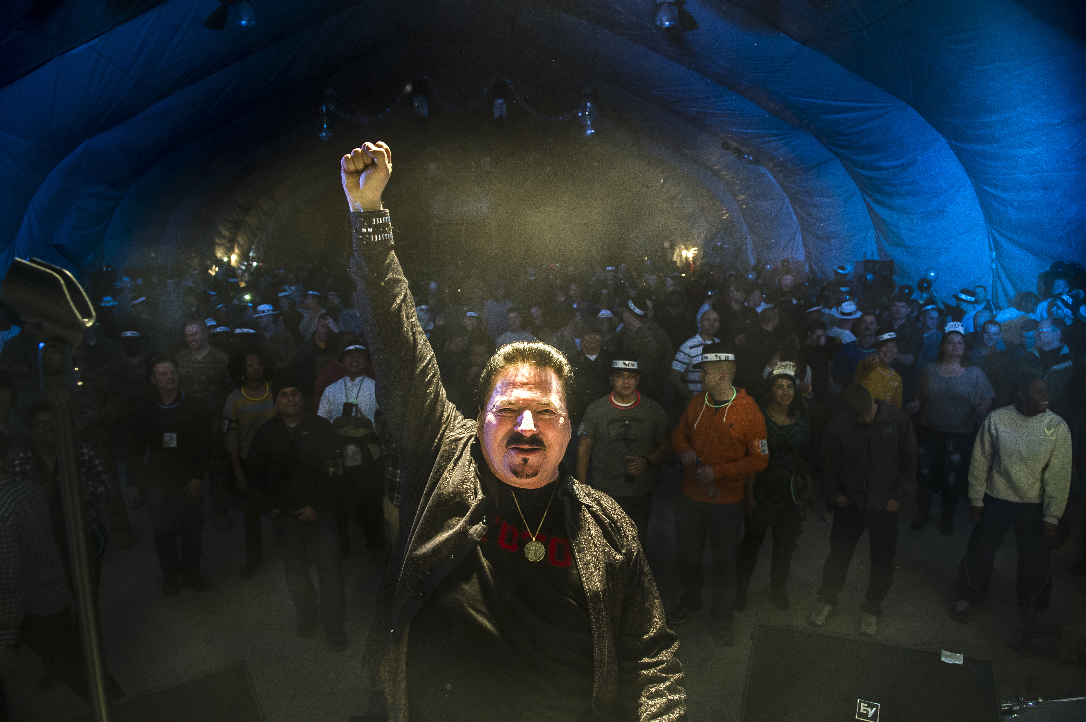 Bobby Kimball, TOTO frontman, finishes a performance at Transit Center at Manas, Kyrgyzstan, Dec. 31, 2013. Bobby Kimball, Alex Ligertwood and Bill Champlin performed for members of TCM to celebrate the New Year. More than 1200 Service members and civilian counterparts attended the event